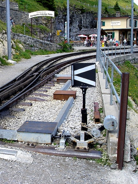 Schynige Platte-Bahn